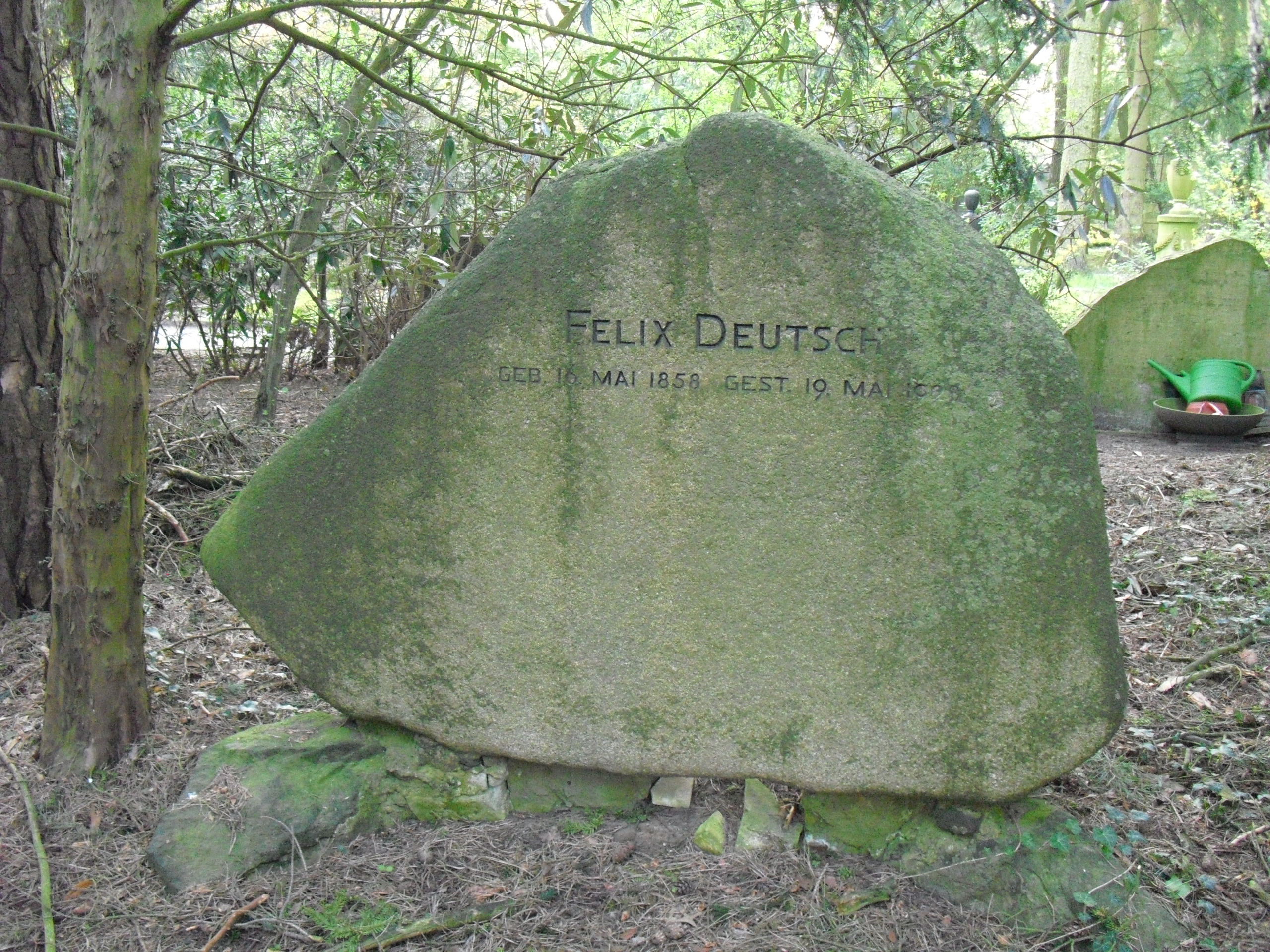 Grave of German industrialist and co-founder of AEG, Felix Deutsch in Parkfriedhof Lichterfelde in Berlin, Germany.